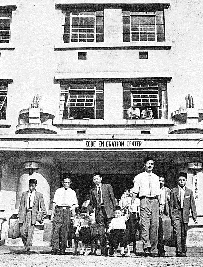 Kobe Emigration Center